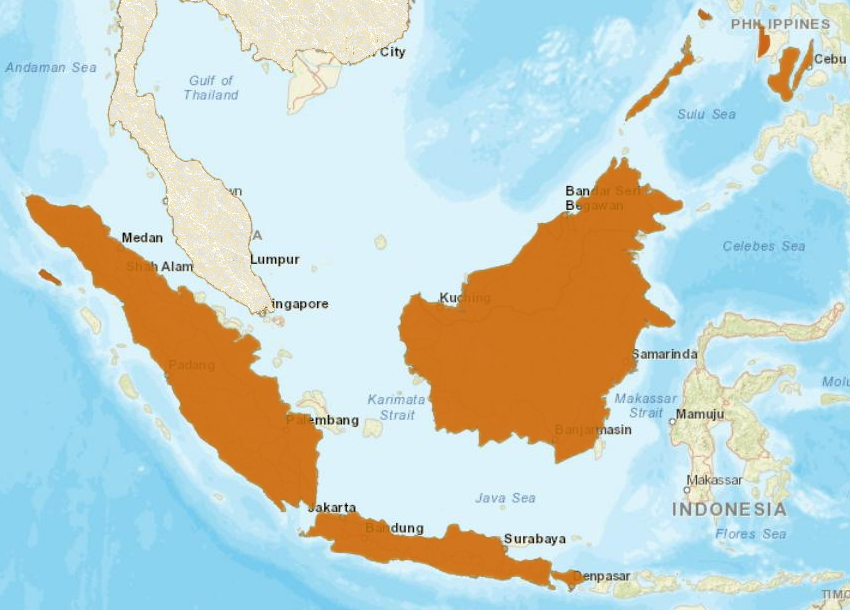 Distribution of Sunda Leopard Cat